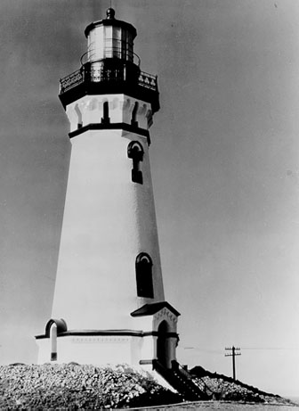 Public Domain statement here; Piedras Blancas Lighthouse is a lighthouse in California, United States, on the northern entrance to San Simeon Bay, California.